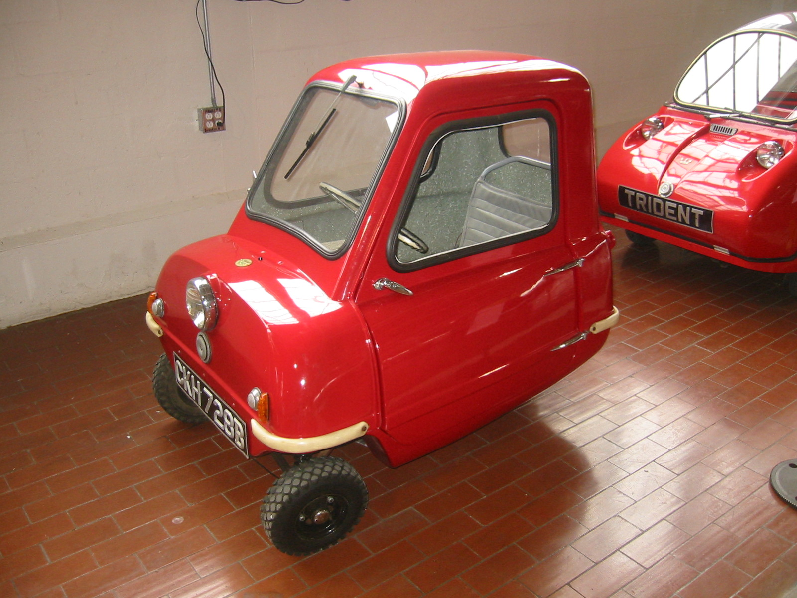 American Automobile Culture: Cars from the Lane Motor Museum 1964 Peel P50, The World's Smallest Car ( at the Lane Motor Museum in Nashville, Tennessee (USA) automobile, car, lane motor museum, museum, nashville, tennessee, usa, micro car, microcar, tiny, small, isle of man, fiberglass